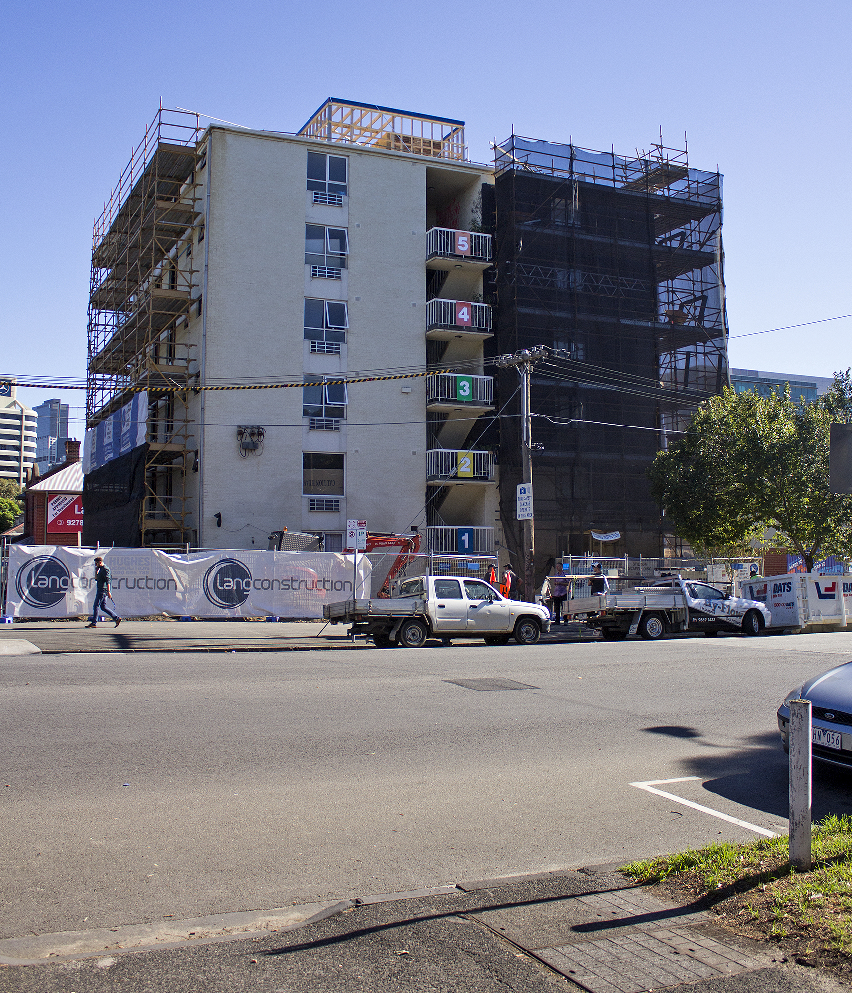 The Block Sky High (former BizMotel) in Park Street, South Melbourne.